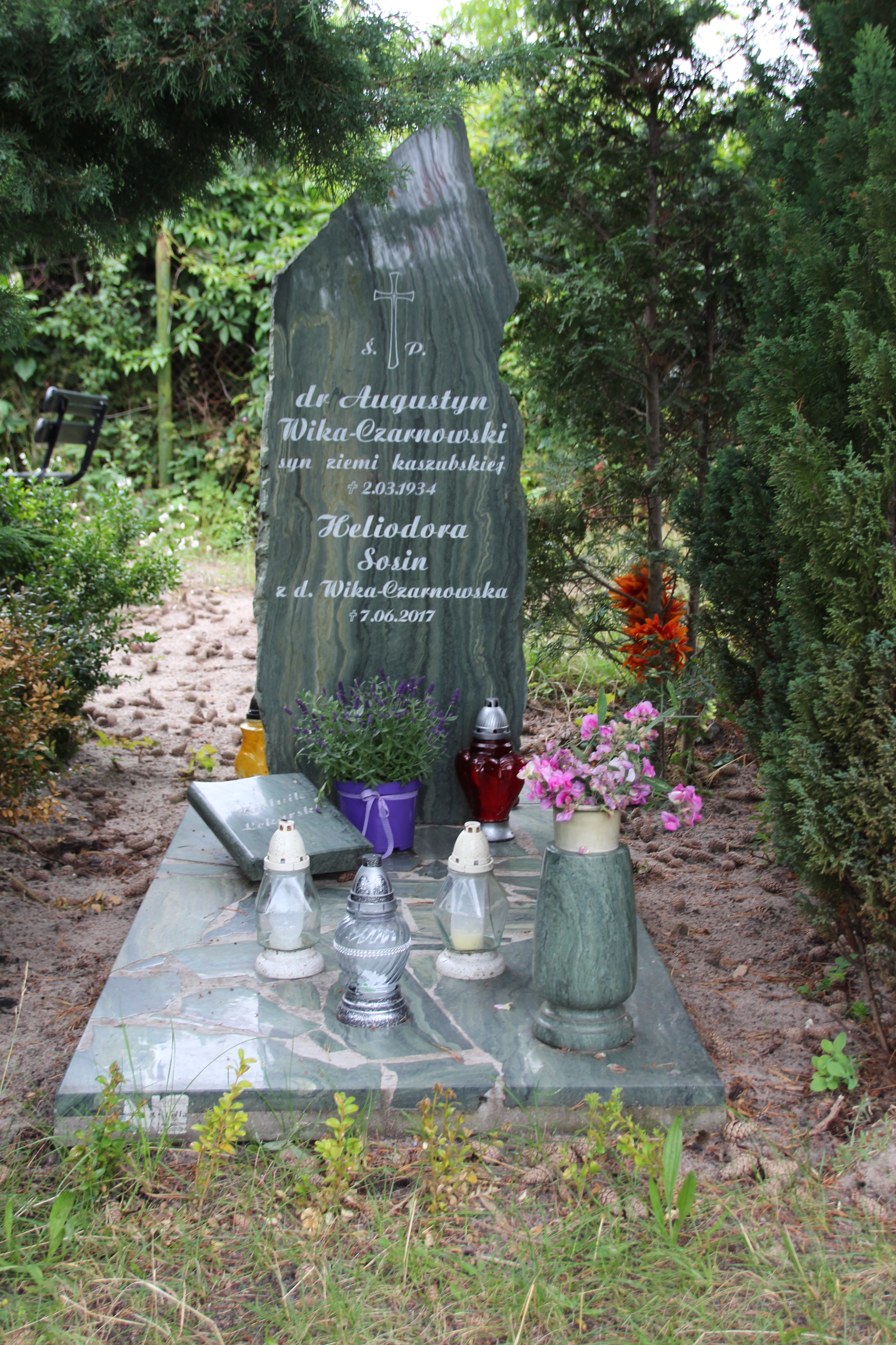 Grave of Dr Augustyn Czarnowski, Hel Cemetery